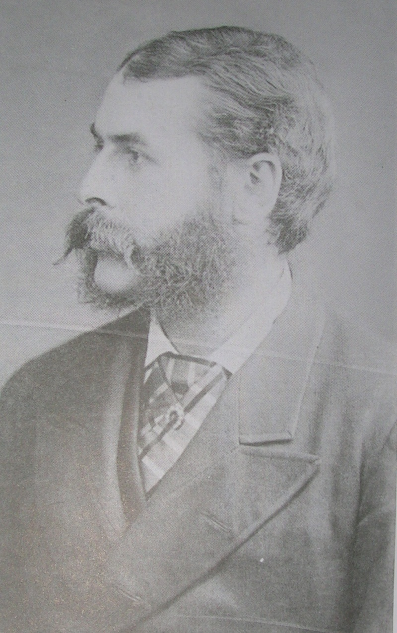 Henry John Elwes, FRS (16 May 1846 - 26 November 1922) - photograph reprinted in B R Subba Rao (1998) History of entomology in India. Institution of agricultural technologists, Bangalore.